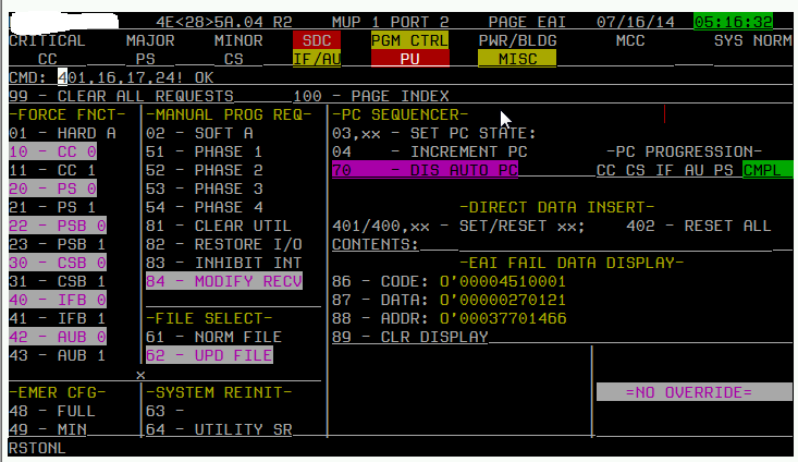 4ESS Switch Emergency Action Interface (EAI) Display Page for